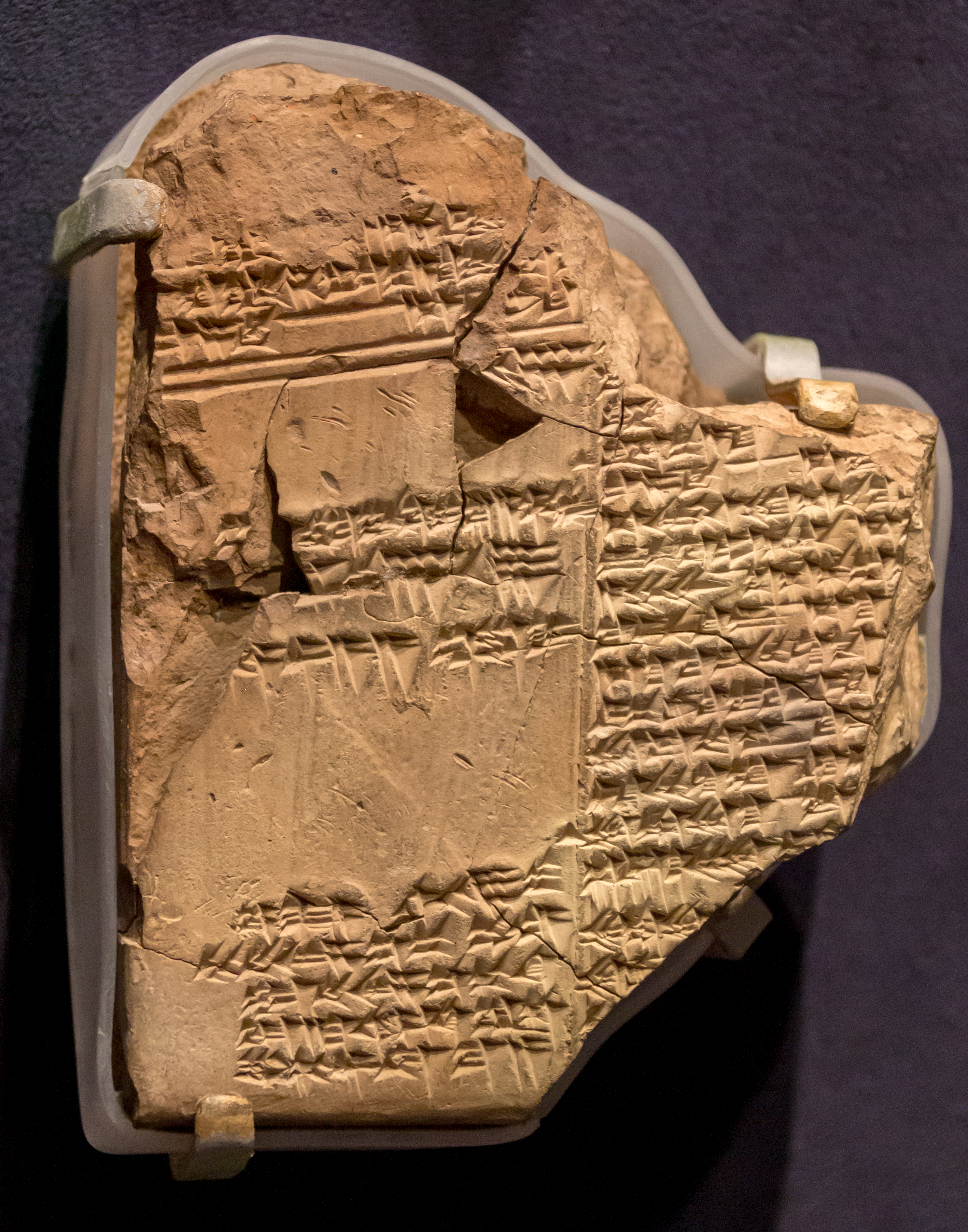 Morgan Library & Museum, New York Tablet inscribed with a fragment of the Epic of Atrahasis, in Akkadian. Mesopotamia, First Dynasty of Babylon, Reign of King Ammi-saduqa, ca. 1646-1626 B.C.